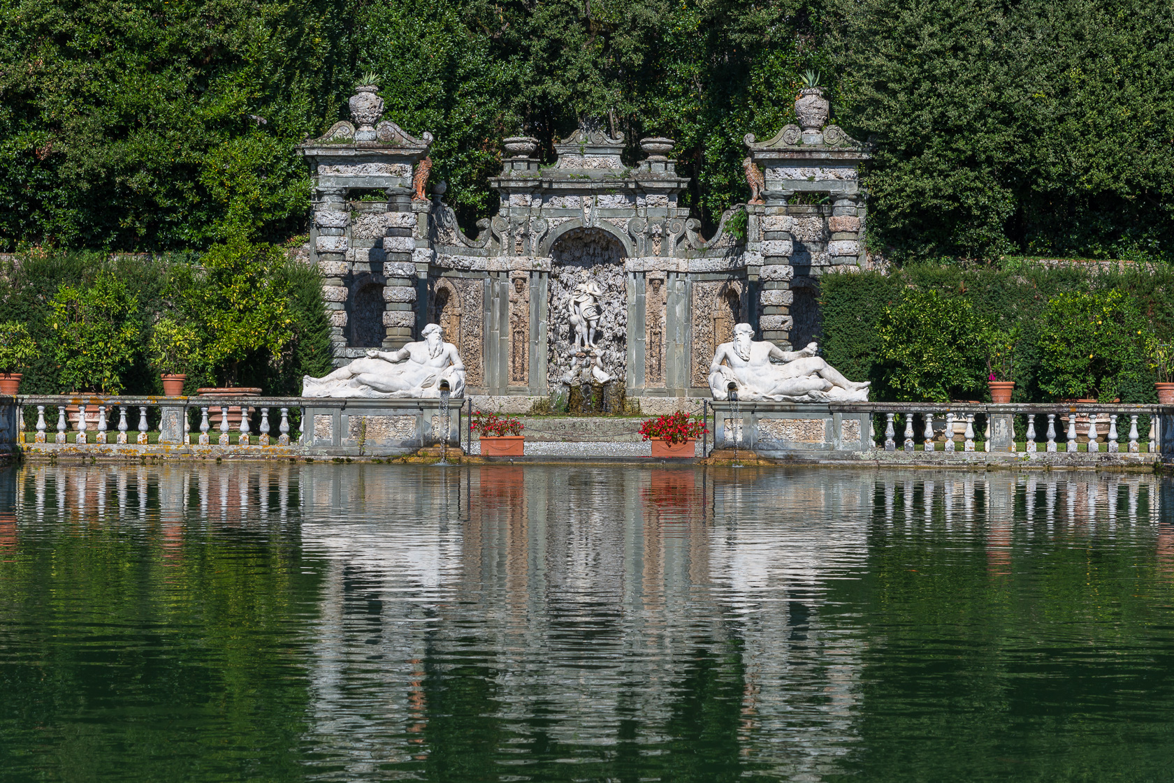 Statues on Fishpond of Lemon's Garden - Villa Reale, LUCCA TUSCANY